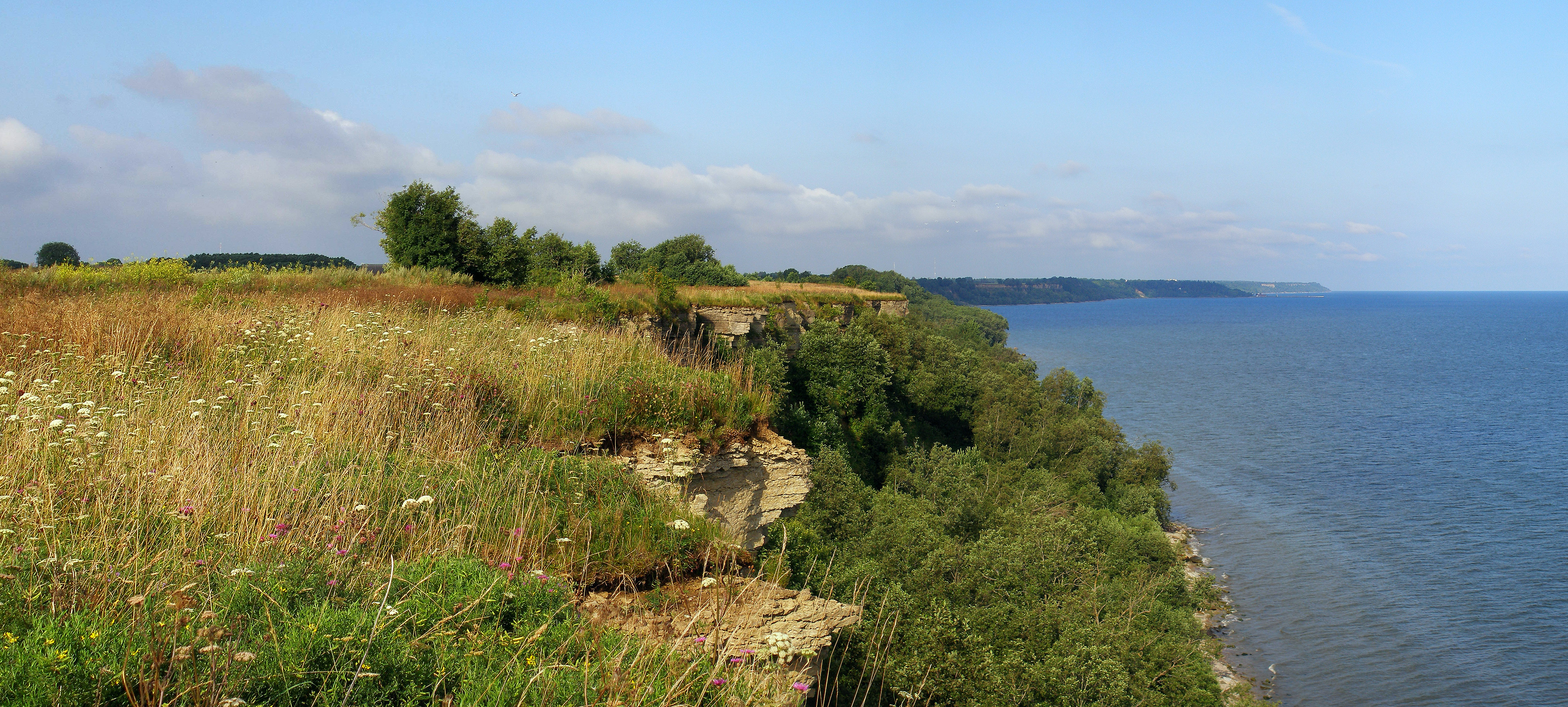 Päite cliff, part of Baltic Klint, near Sillamäe, Estonia. (h=40 m a.s.l)